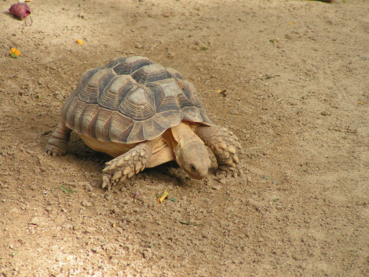 Geochelone sulcata at the Oasis zoopark, La Lajita, Fuerteventura, Spain